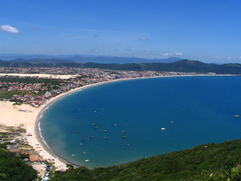 Praia dos Ingleses - Ingleses beach - Florianópolis - island and state of Santa Catarina, Brazil - by Eliane Quadro - january 2006